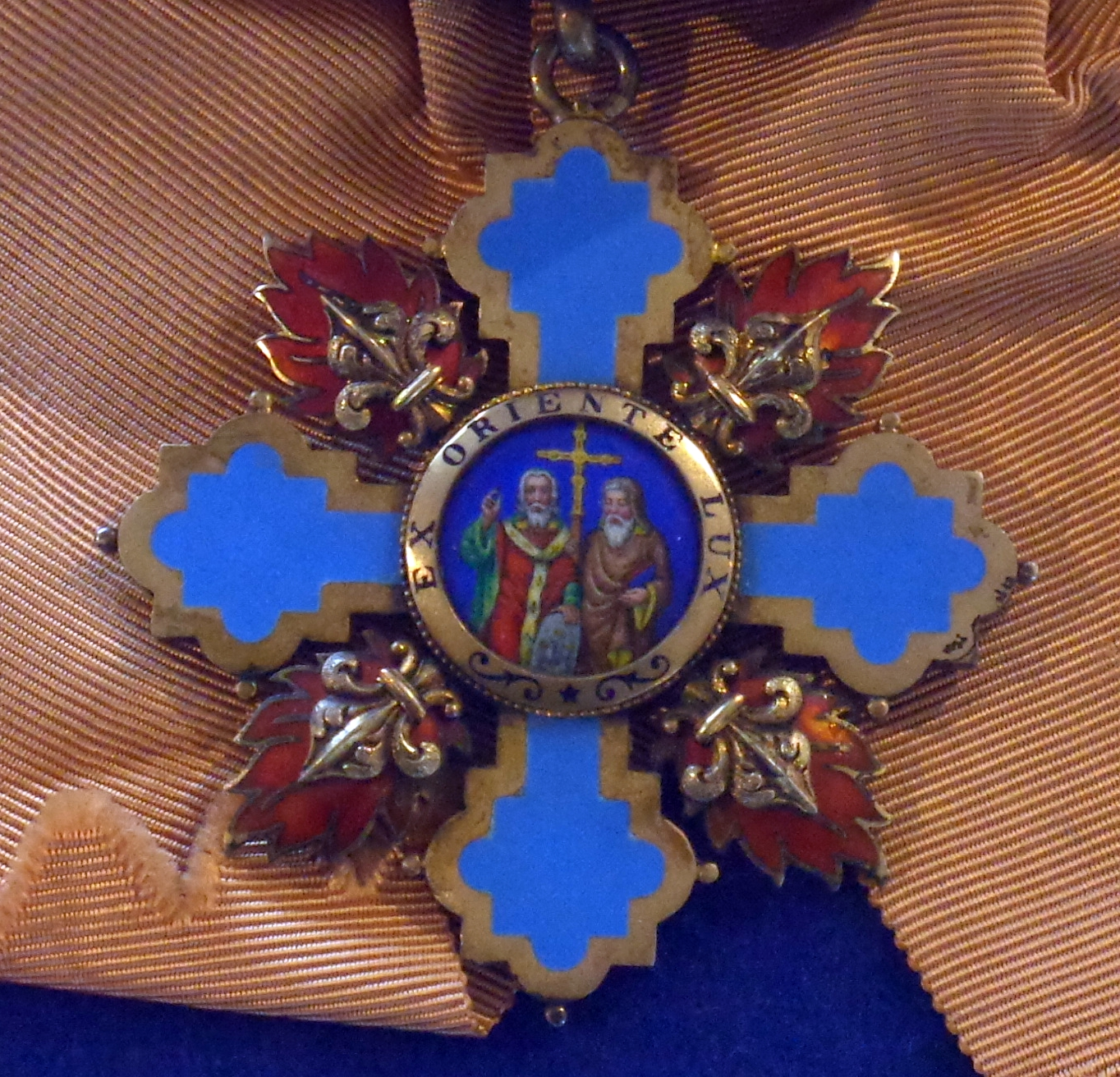 Order of Saints Equal to Apostles Cyril and Methodius, badge, 1920-1930. Kingdom of Bulgaria. The exhibition of the Tallinn Museum of Orders of Knighthood, Estonia.